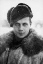 Knight of the Mannerheim Cross